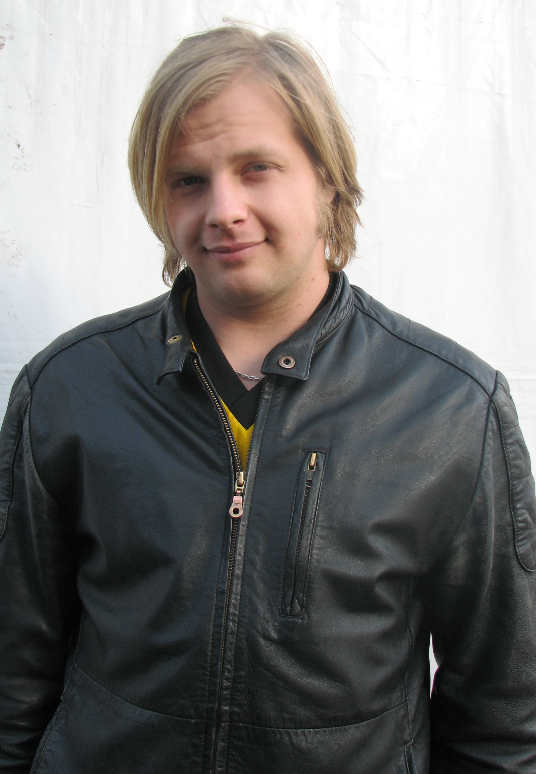 Veljo Reinik in Tallinn Literature Festival HeadRead.